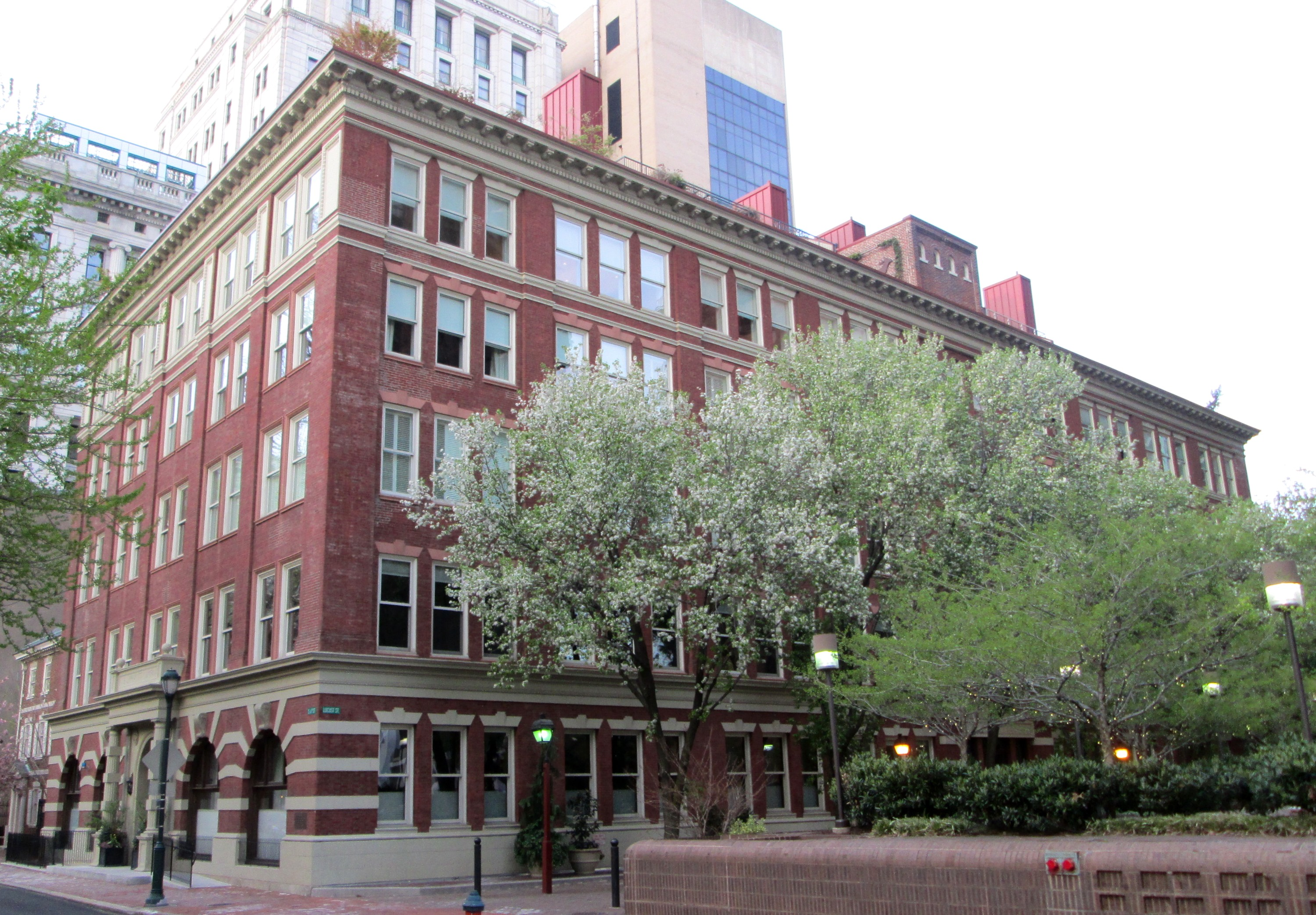 J. B. Lippincott & Co. was an American publishing house founded in Philadelphia, Pennsylvania, in 1836 by Joshua Ballinger Lippincott and incorporated in 1885. After a number of acquisitions by other companies, the name is now an imprint of Wolters Kluwer Health. The J. B. Lippincott Building at 227-31 South 6th Street on the corner of Locust Street was built in 1900 and was designed by William B. Pritchett in the Italianate style. In 2005 it was converted to a 33-uint luxury condo building.